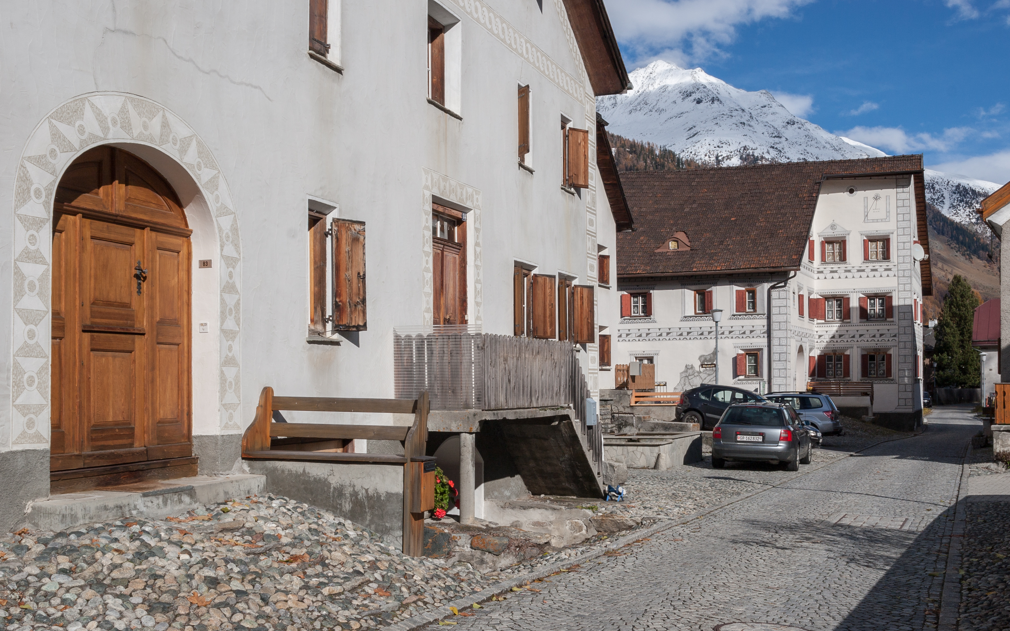 In Susch, Engadina, Switzerland (2008)